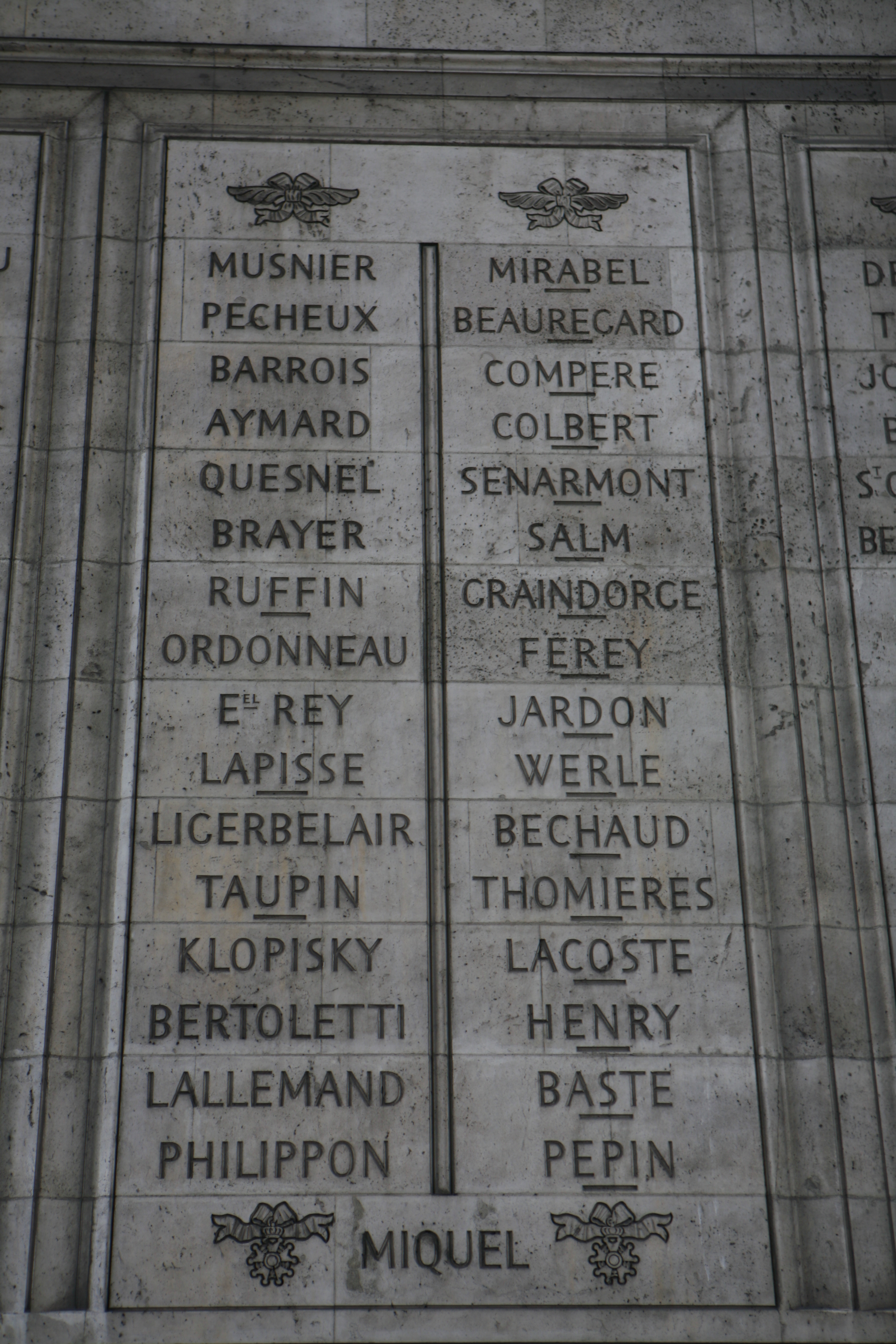 Inscriptions of the Arc de Triomphe. Western pillar, Columns 37, 38.